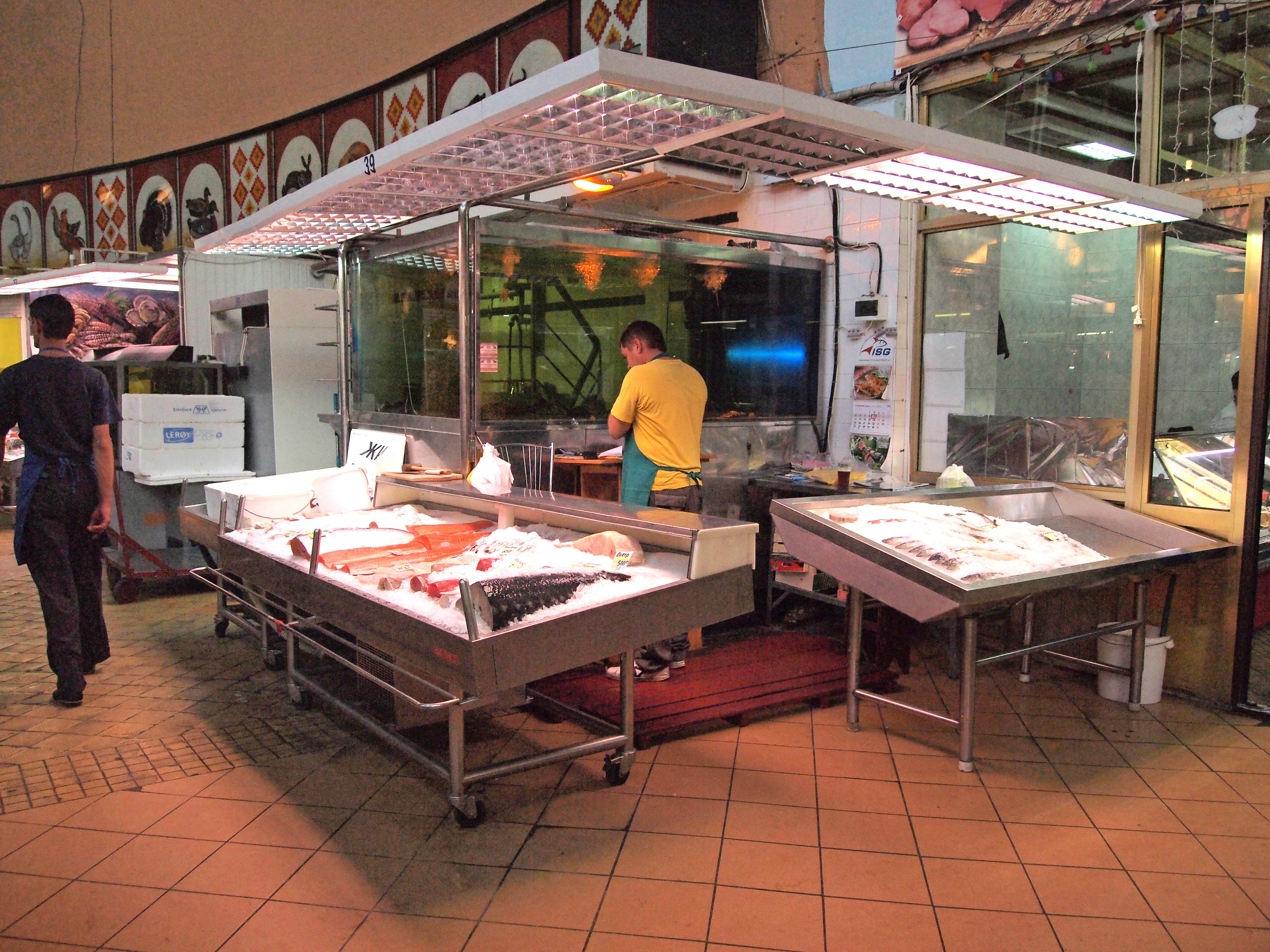 Inside of the Bessarabskyi Market, Kiev. This photograph was taken with an Olympus E-PL1